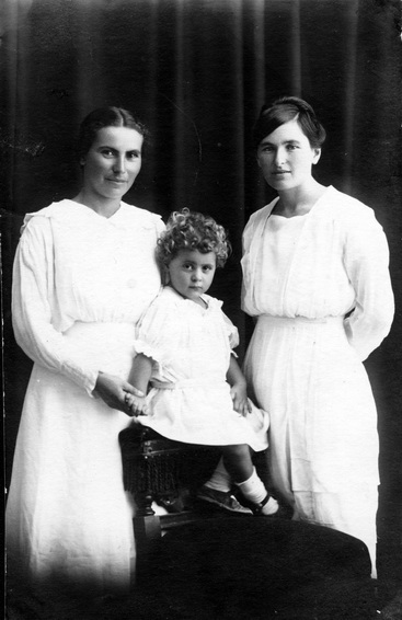 1920, Chaya and Amalia Israeli together with Zipporah, wife of Chaya's brother